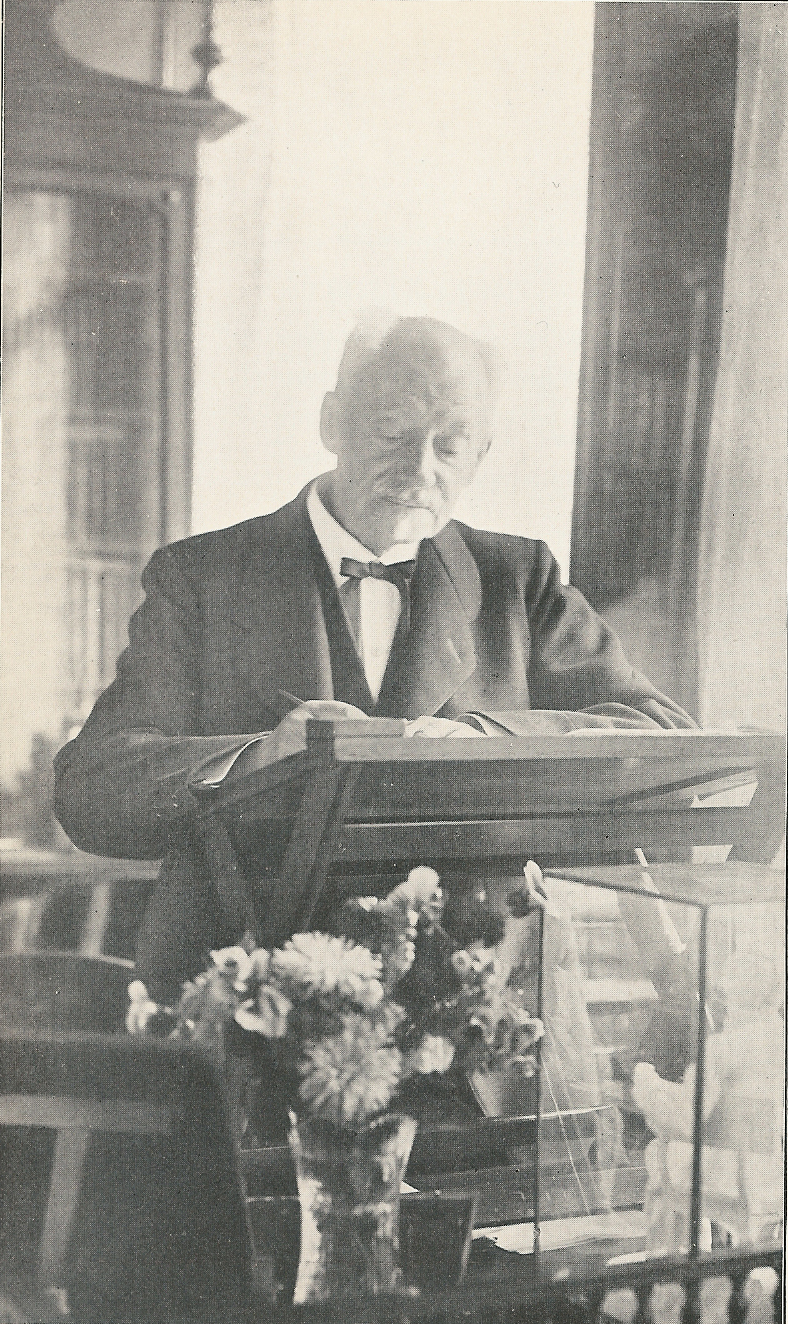 Troels Lund, september 1920 på sin 80-års fødselsdag.